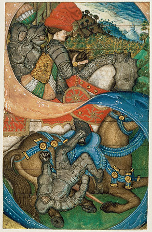 Title: Initial S: The Conversion of Saint Paul Artist/Maker: Attributed to Pisanello (Italian, by 1395 - about 1455) Attributed to the Master of the Antiphonal Q of San Giorgio Maggiore (Italian, about 1440 - about 1470) Culture: Italian Place: Veneto (probably) Italy Verona (possibly) Italy (Place created) Date: about 1440 - 1450 Medium: Tempera colors, gold leaf, gold paint, silver leaf, and ink on parchment Dimensions: Leaf: 14.1 x 8.9 cm (5 9/16 x 3 1/2 in.) See more In this closely trimmed historiated initial S from a gradual, the illuminator represented Saul's dramatic conversion to Christianity. Dressed in a soldier's helmet and armor, Saul tumbles to earth, his horse collapsing beneath him. Though the artist omitted the rest of the biblical account, in which Saul changes his name to Paul and takes up an evangelical Christian mission, the initial's viewers would have been familiar with the story. In the top half of the initial, another soldier, seated erect on a more elaborately liveried steed, wears a fancy hat and tunic trimmed in green, white, and red, the colors of both the Gonzaga and Este families. Given his visual precedence in the image, this man may have been the book's patron, commissioning the gradual for use in his family's private chapel or for an ecclesiastical foundation under his protection. Interplay between the naturalistic and decorative elements in the initial adds visual tension to the miniature. The artist represented the imposing physical presence of the horses, including details such as the horseshoes and armor and subtly modeling the surfaces, such as the animals' coats. He then harmoniously integrated these carefully observed figures and their details within the artificial constraints of the shape of the letter S.